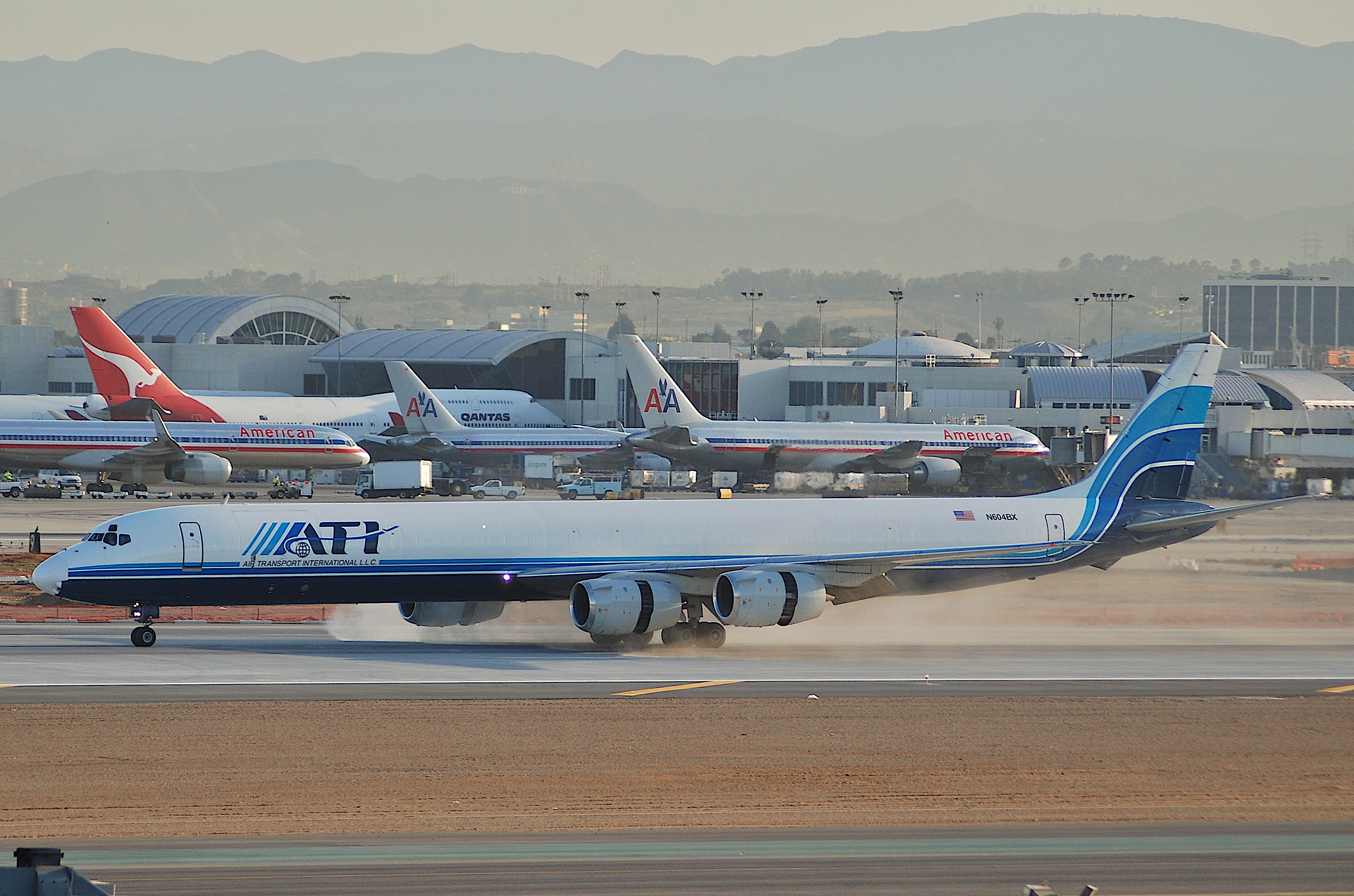 This DC-8 was originally delivered to Flying Tigers as N792FT in February 1969...